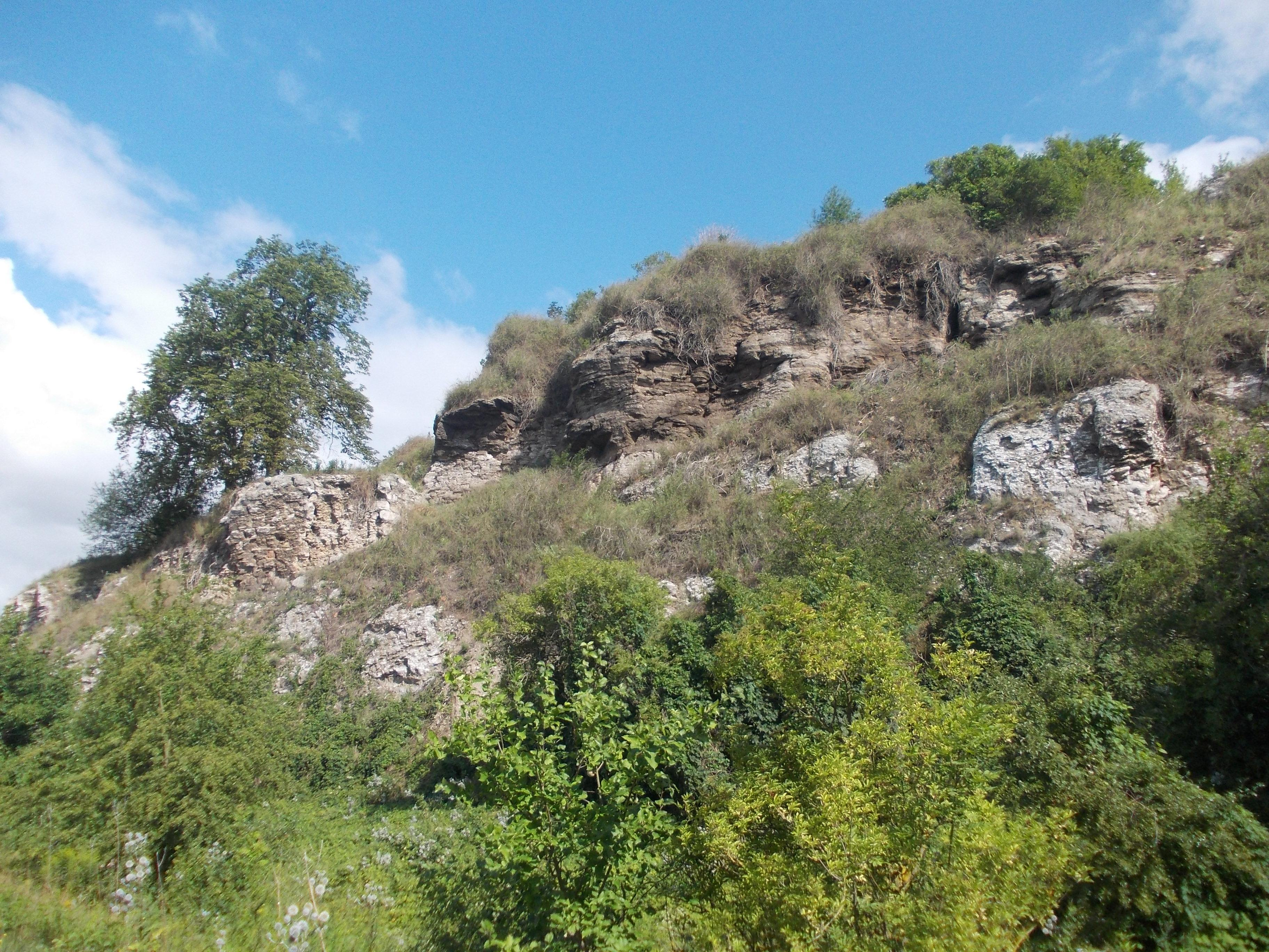 Outcrop (zechstein) in Wendelstein (Kaiserpfalz, district: Burgenlandkreis, Saxony-Anhalt)